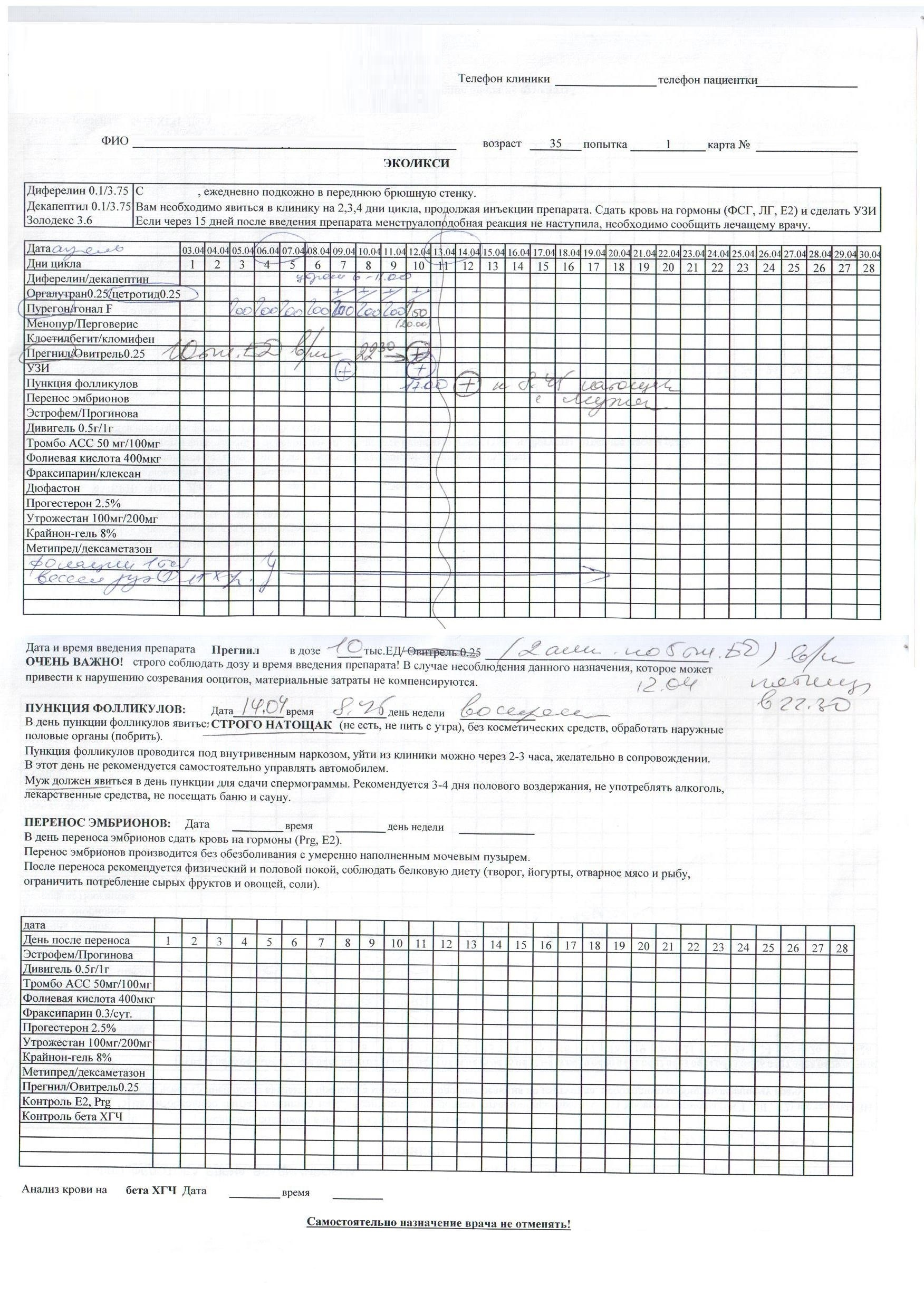 Протокол ЭКО 4